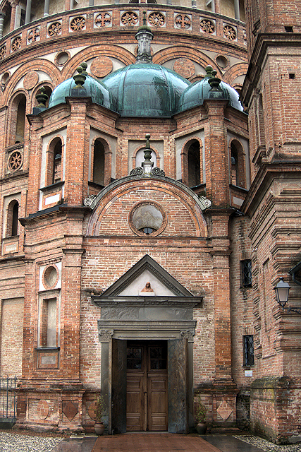 The west wing of the shrine of Santa Maria della Croce, Crema, province of Cremona, Italy